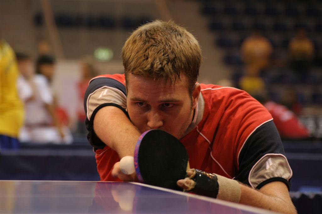 Disabled table tennis player Peter Rosenmeier, during the European TT Championship 2005.